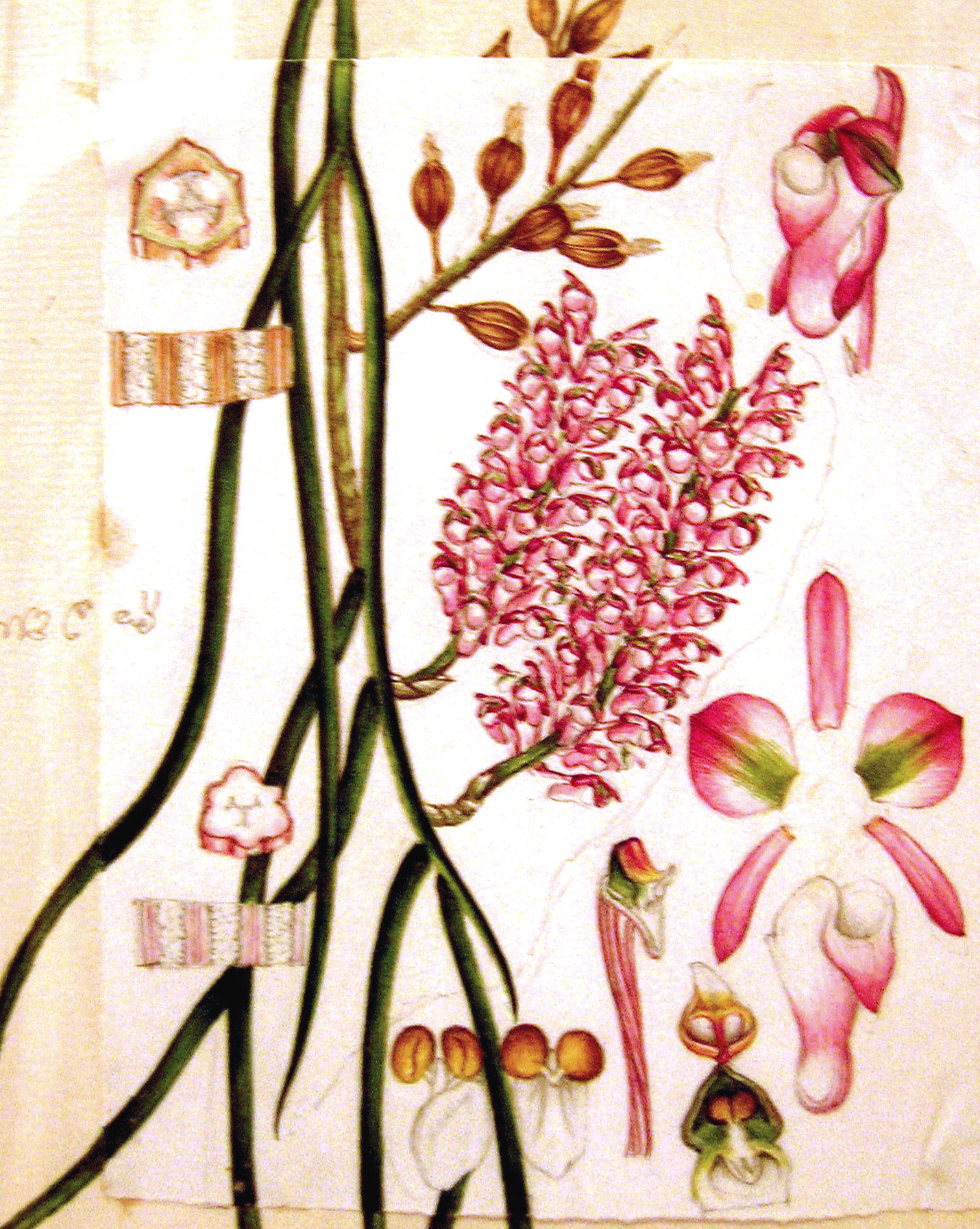 Spiranthes sinensis, at Royal Botanic Garden Edinburgh.